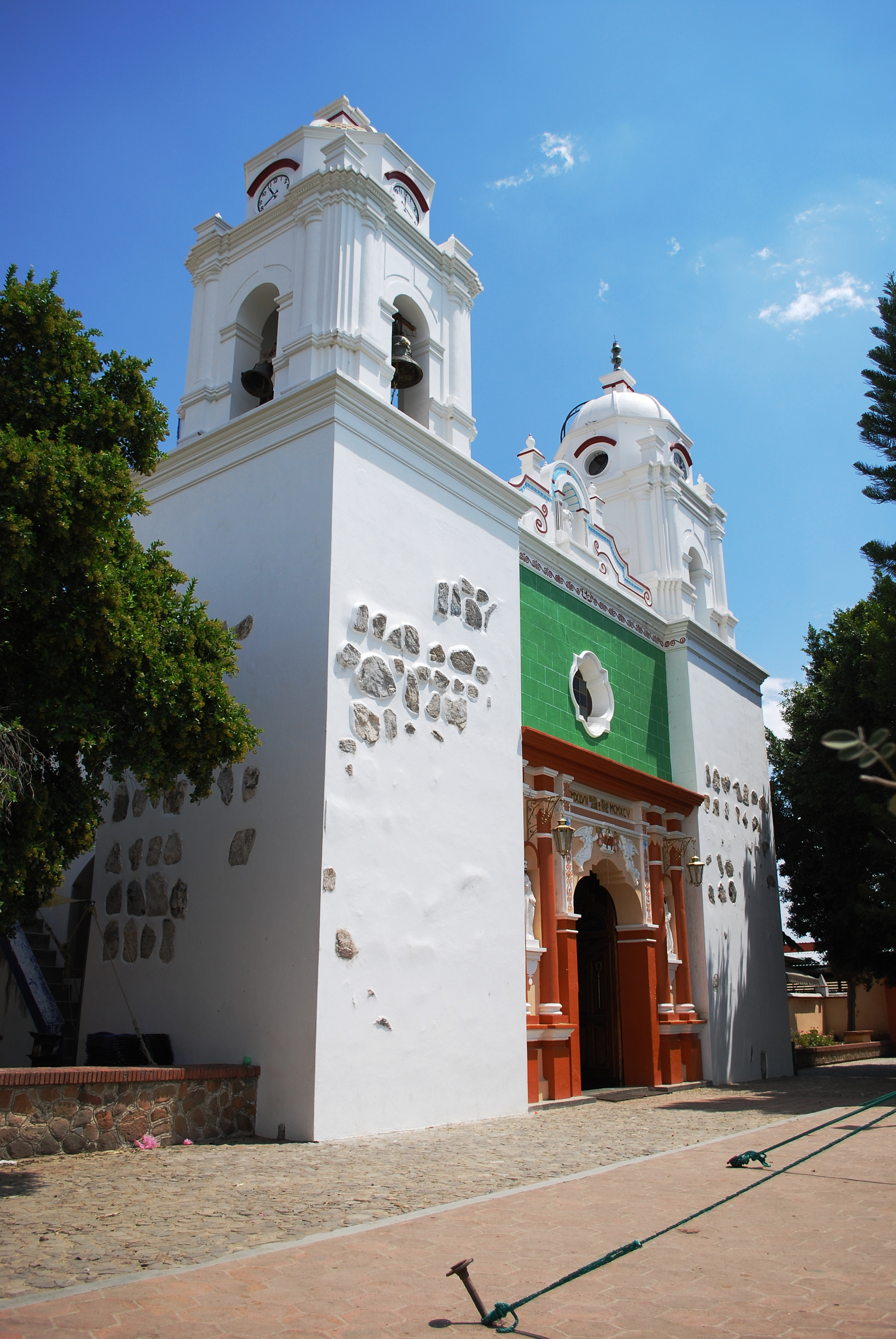 Facade of the parish church of San Antonino Castillo Velasco, Oaxaca, Mexico